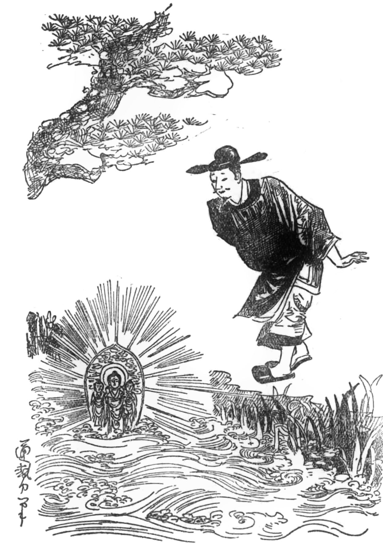 Honda Yoshimitsu.